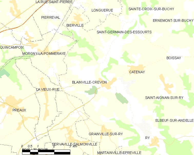 Map of French municipality Blainville-Crevon